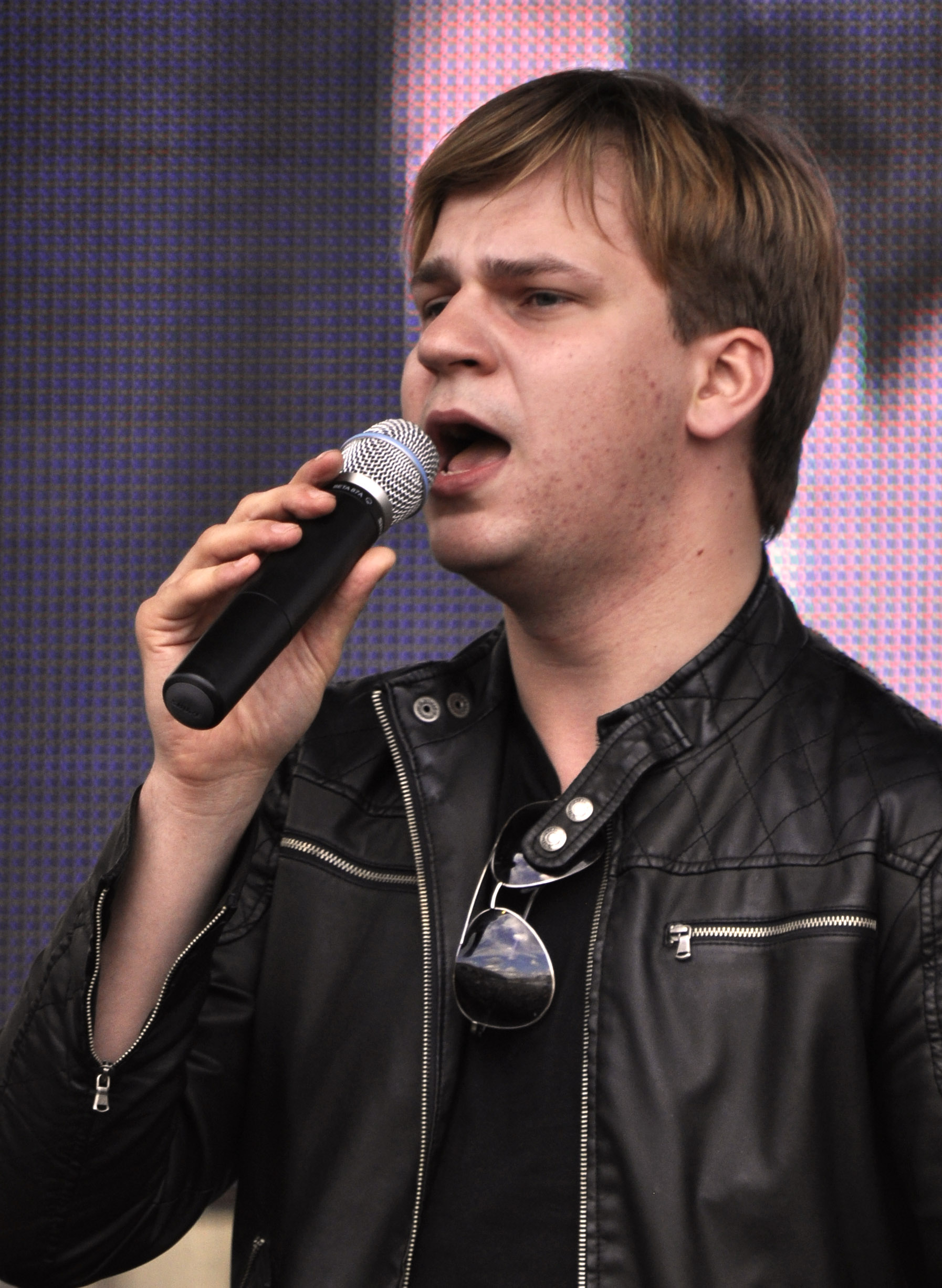 Singer Martin Chodur in Třebíč.